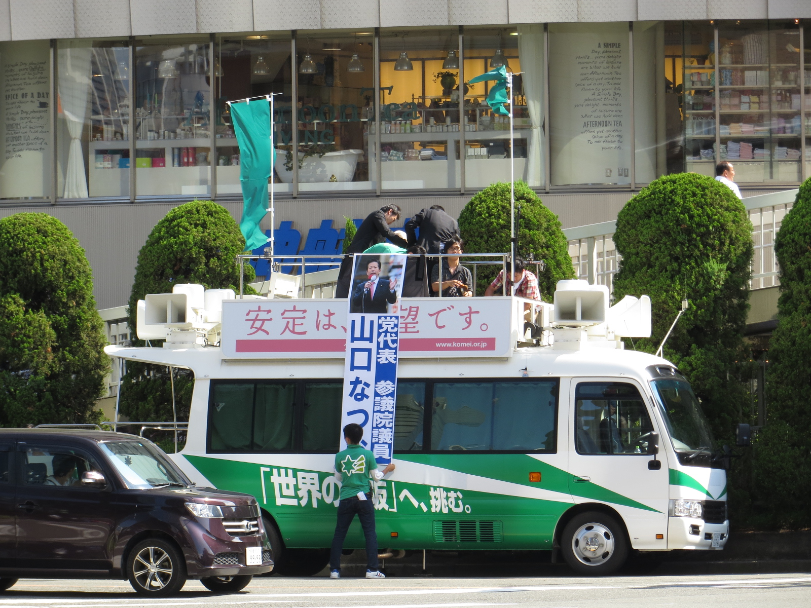 Japanese House of Councillors election, 2013 in Umeda, Osaka.